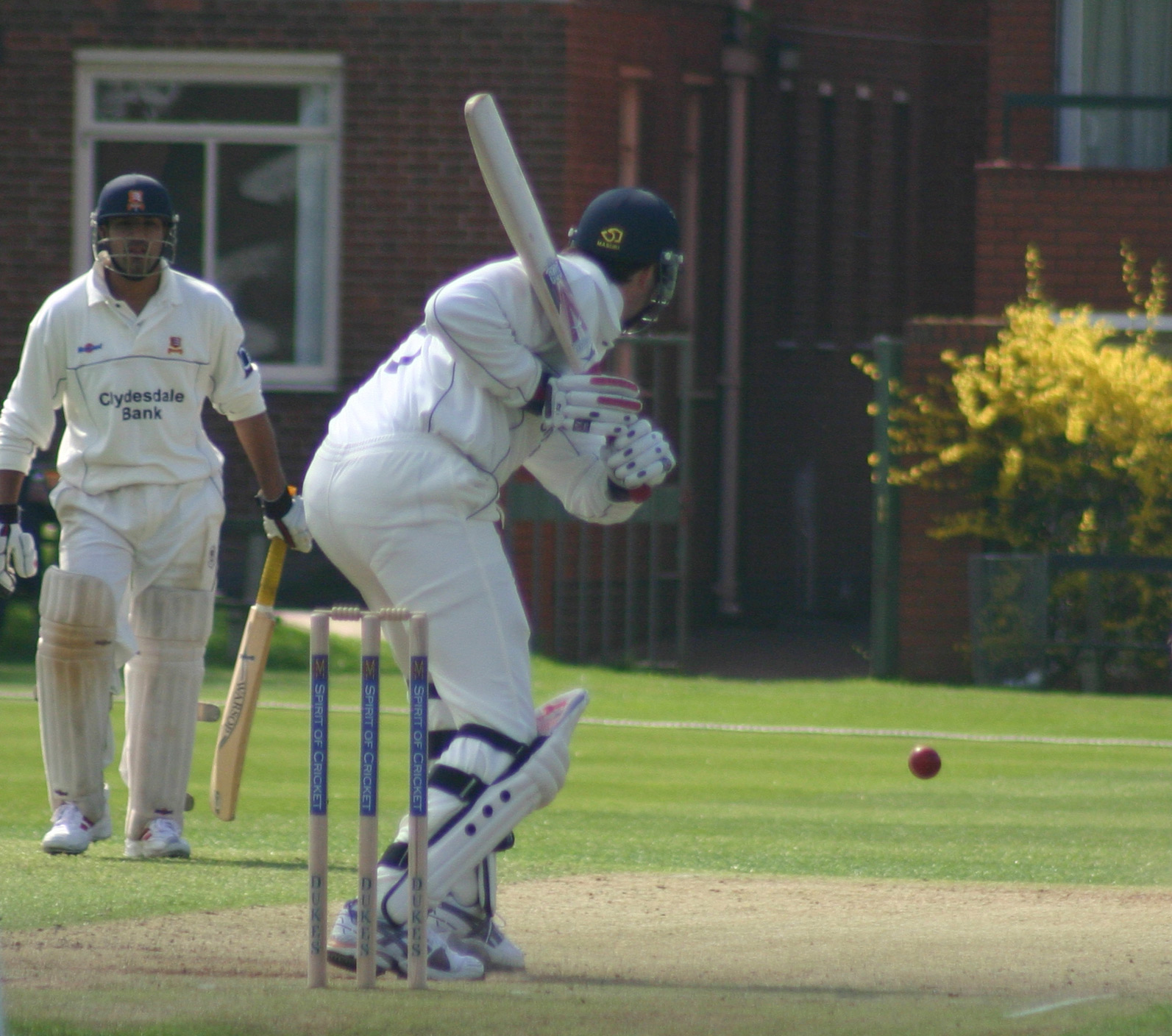 Ronnie Irani batting for Essex against Cambridge UCCE, at Fenner's cricket ground in Cambridge, 10 April, 2005. The non-striker is Ravinder Bopara. Photograph taken by Stephen Turner and released under the GFDL.